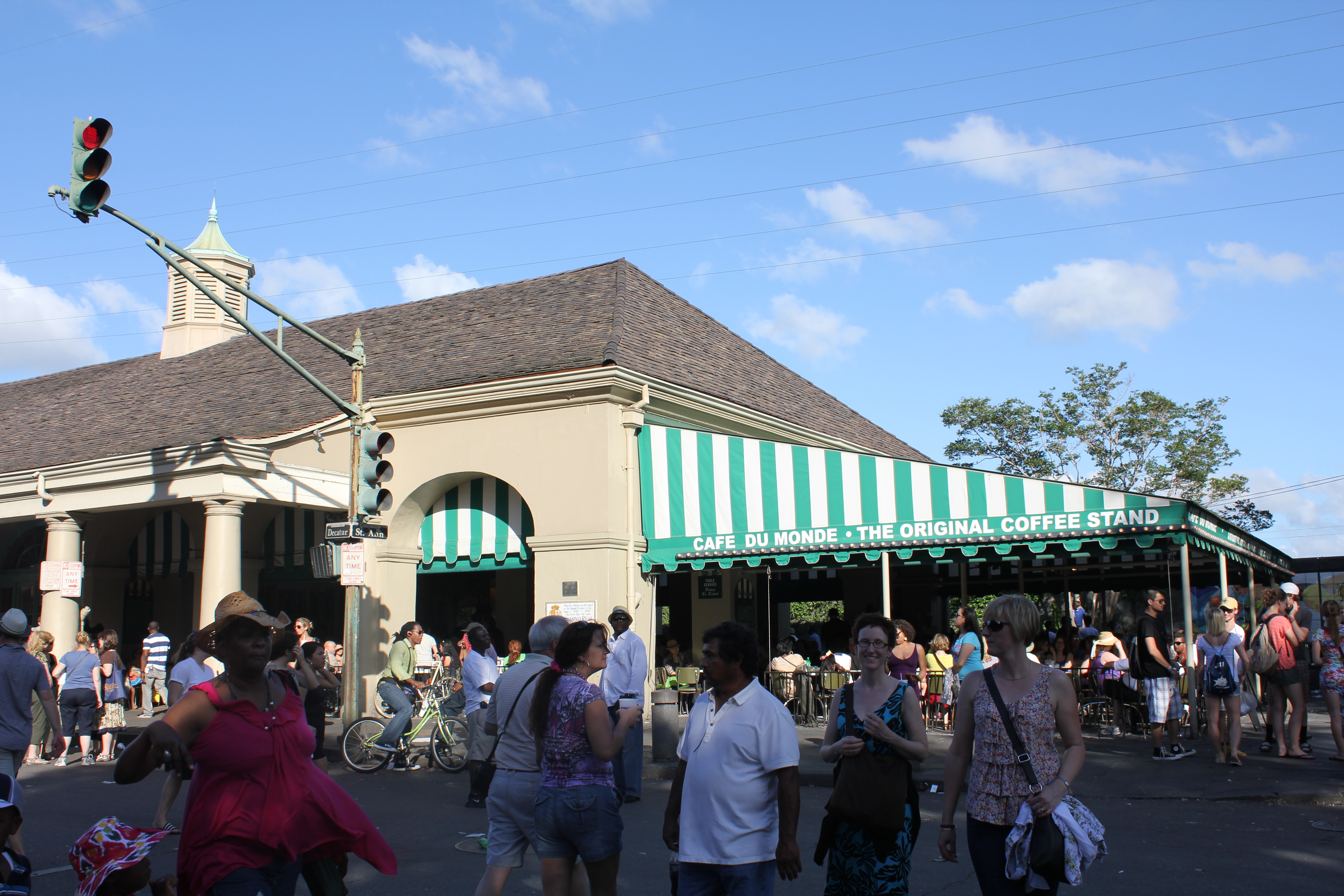 Original Cafe Du Monde Coffee Stand seen looking southeast from Decatur Street in New Orleans, LA on a late Sunday afternoon during French Quarter Festival.